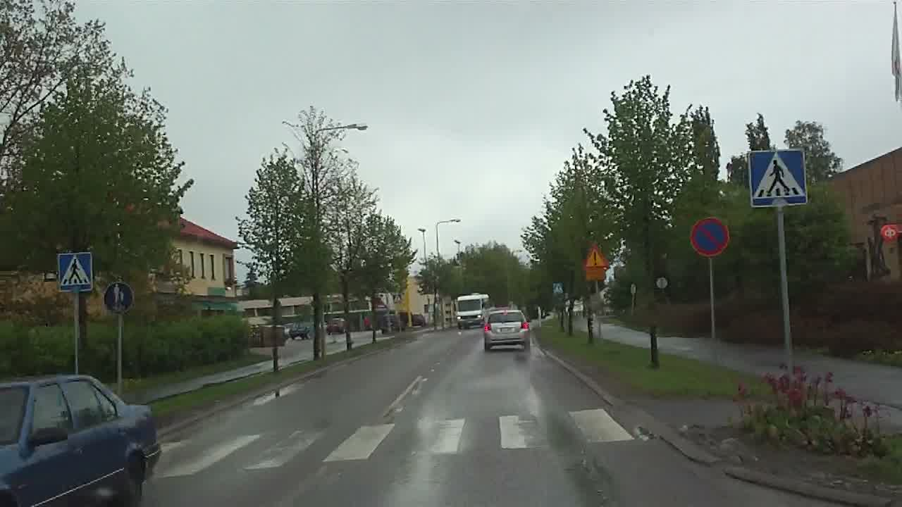 Sysmä city center. In Central Finland, Sysmä.